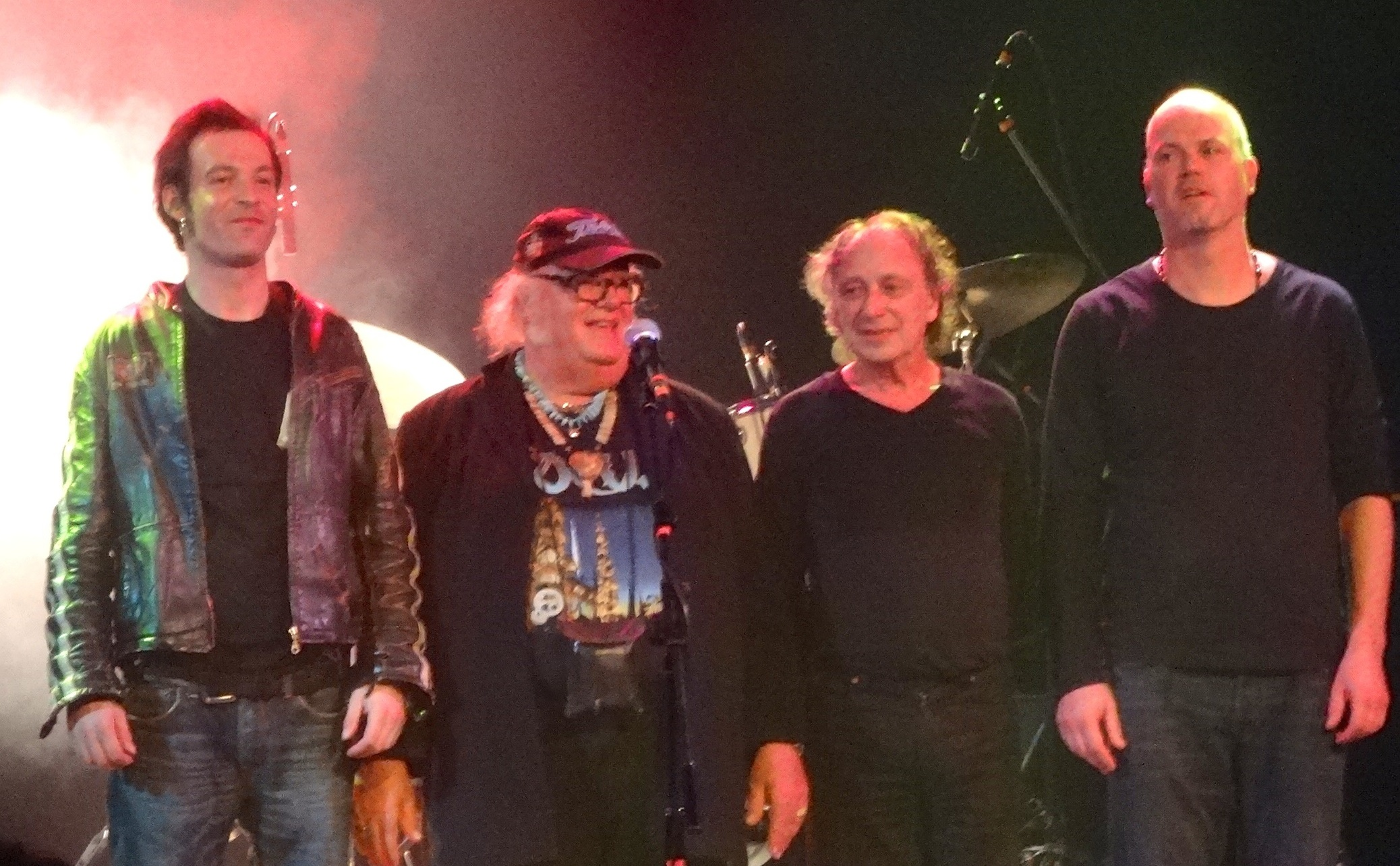 Focus live in 2014.